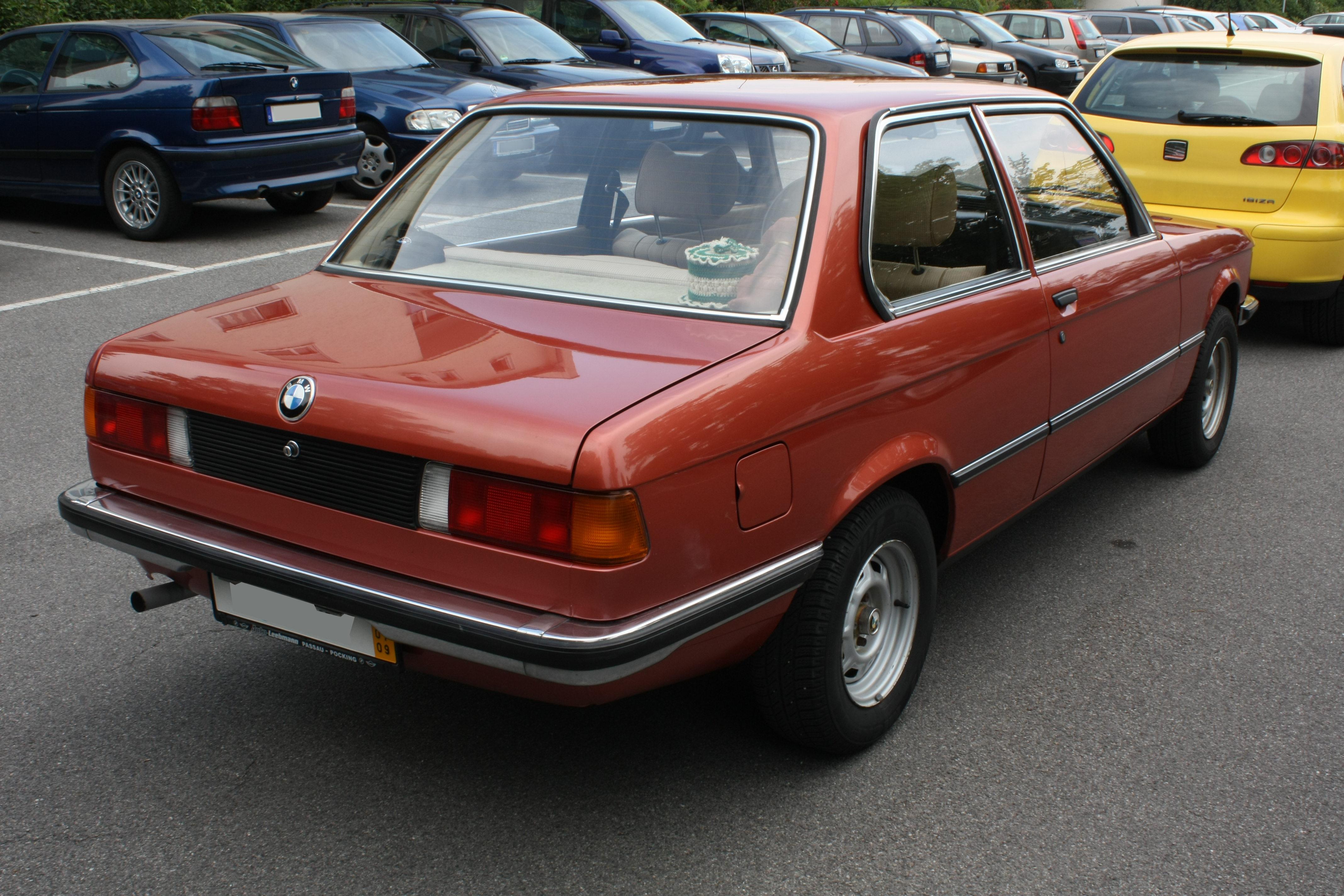 BMW E21